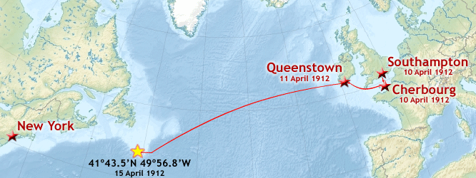 Route of Titanic's first/last maiden voyage, 10-15 April 1912